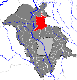 This map shows the area of the Gemeinde (municipality) Semriach in the Bezirk (district) Graz-Umgebung, Styria, Austria.